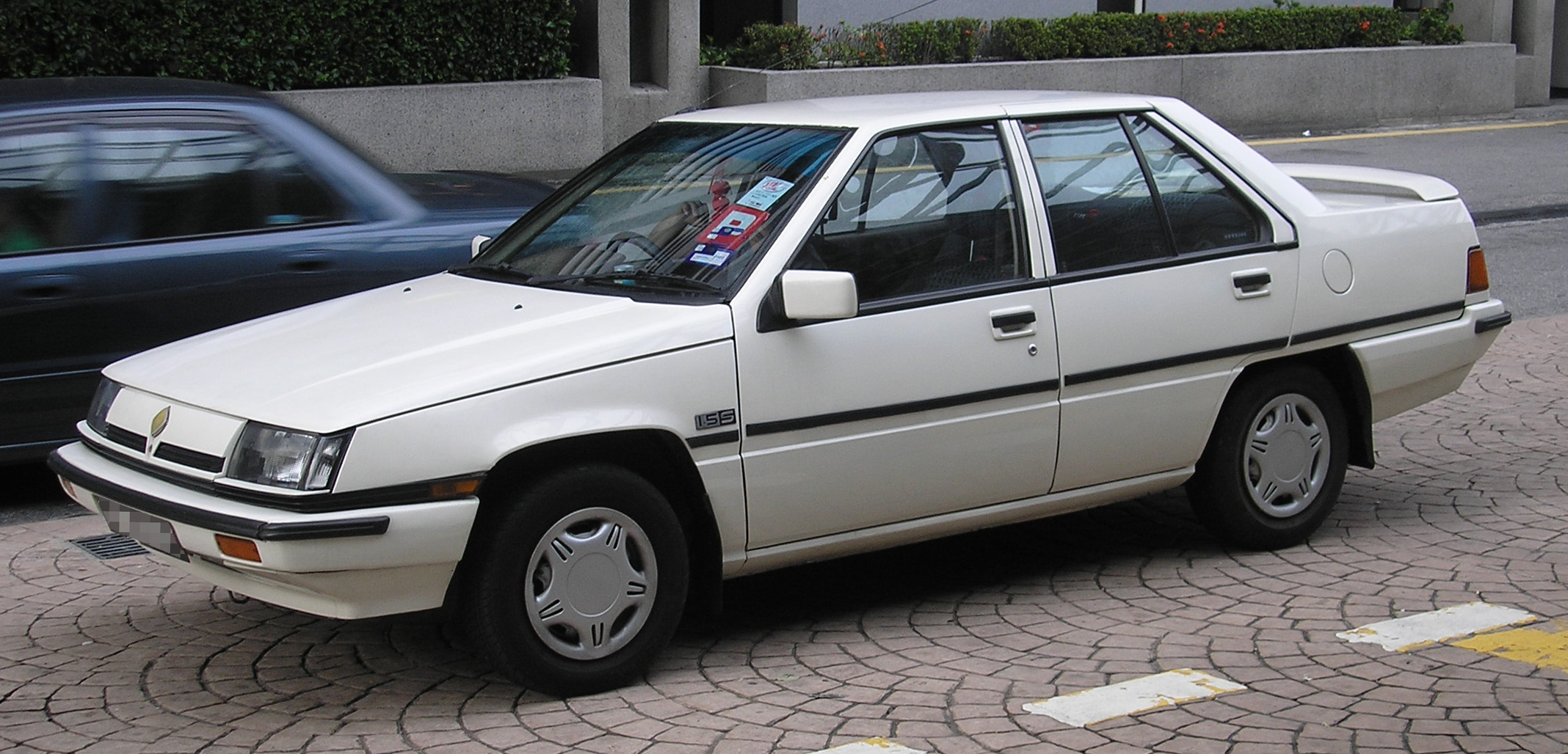 A first gen Proton Saga in Kuala Lumpur, Malaysia. Note that the hubcaps and rear spoiler are aftermarket parts, and not part of the Saga's original package.